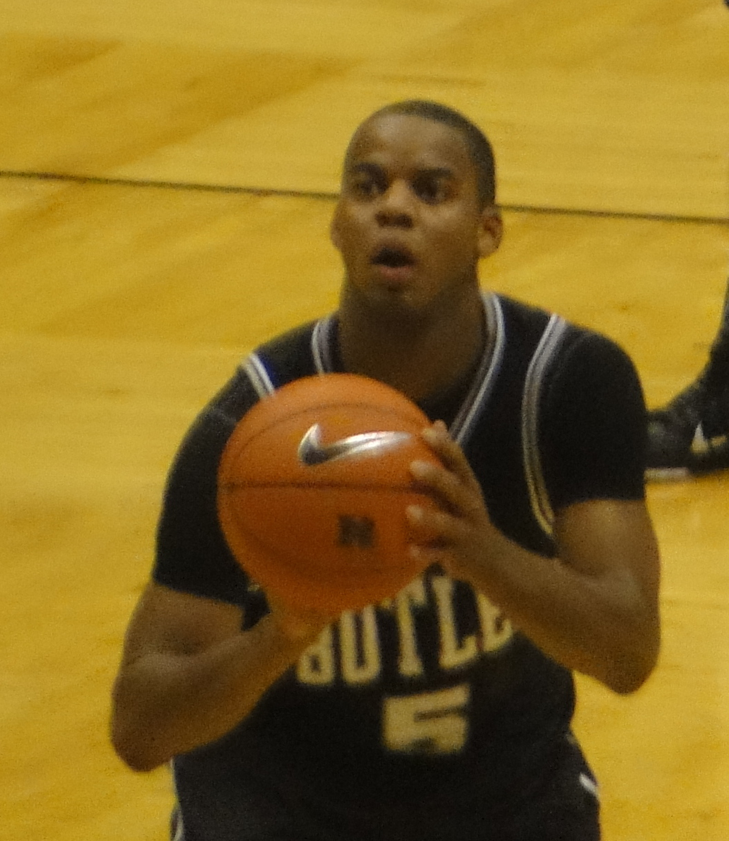 Butler v. Duke basketball